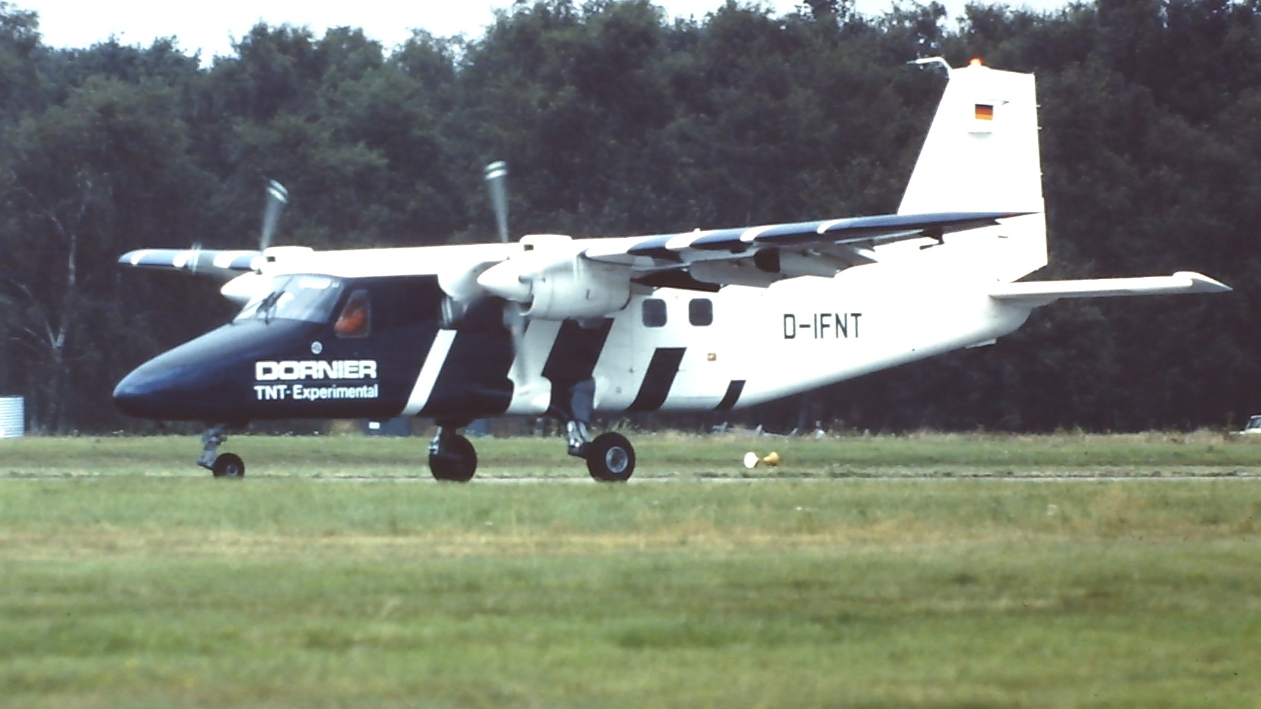 Dornier Do 28/TNT registered D-IFNT at the 1980 Farnborough Airshow. A specially modified aircraft with a new wing being developed for the Dornier 228 (scan from slide)